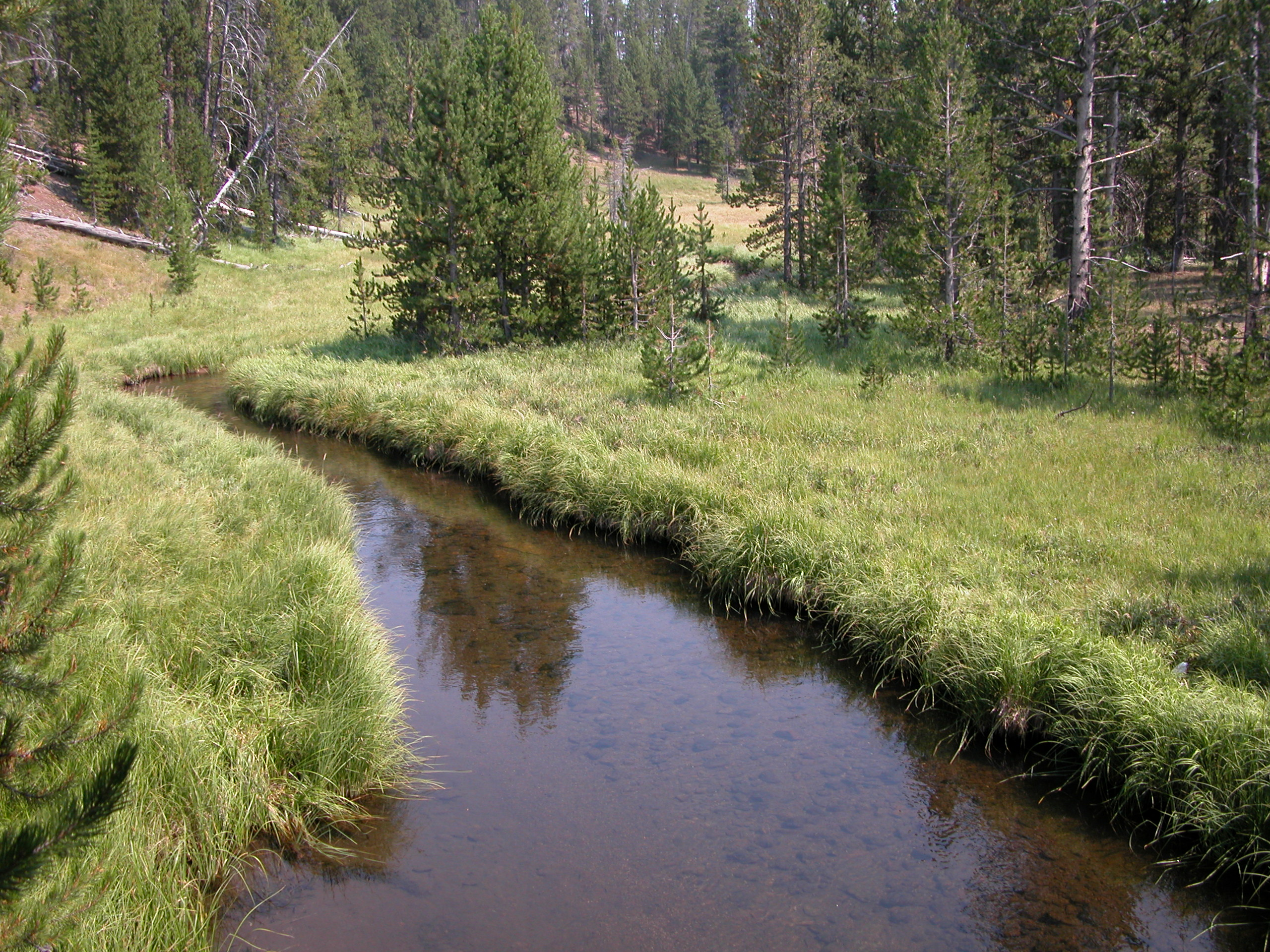 Gibbon River in Yellowstone National Park.